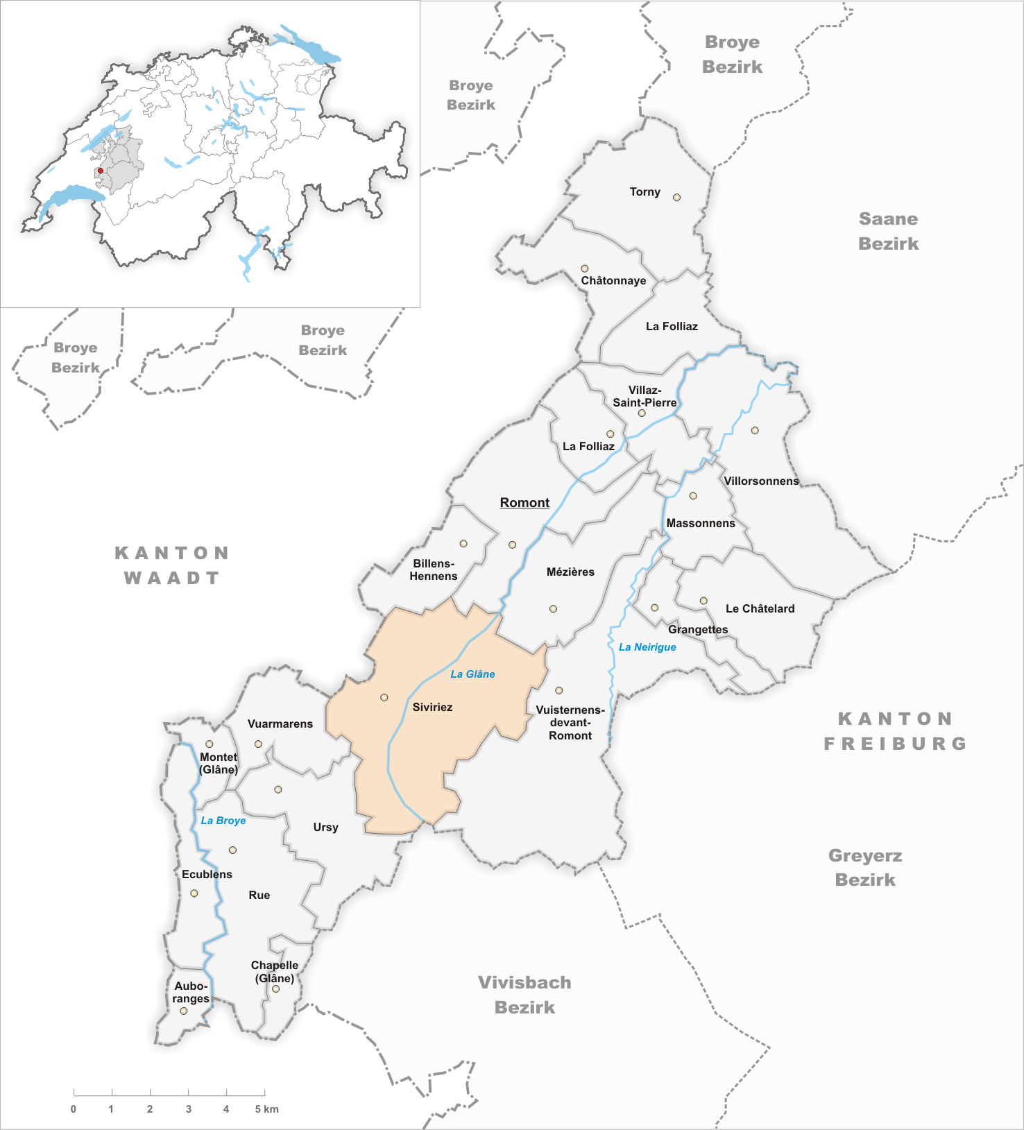 Municipality Siviriez